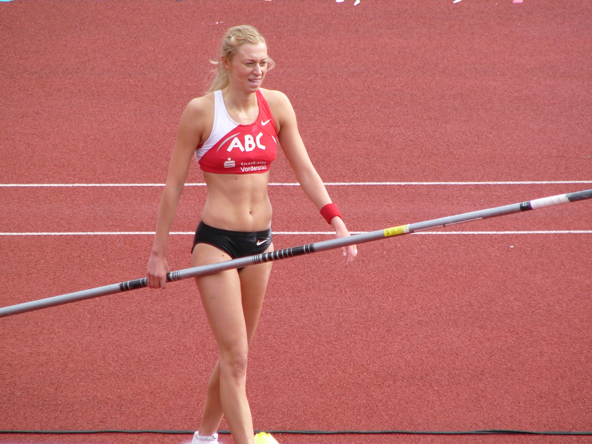 Lisa Ryzih at the 2011 German Athletics Championships in Kassel